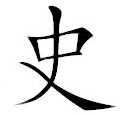 Chinese character 史 (shǐ) meaning history